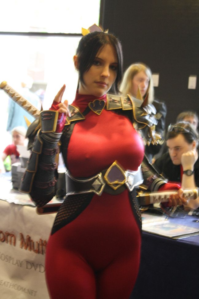 Taki from Soulcalibur, Anime Central 2010